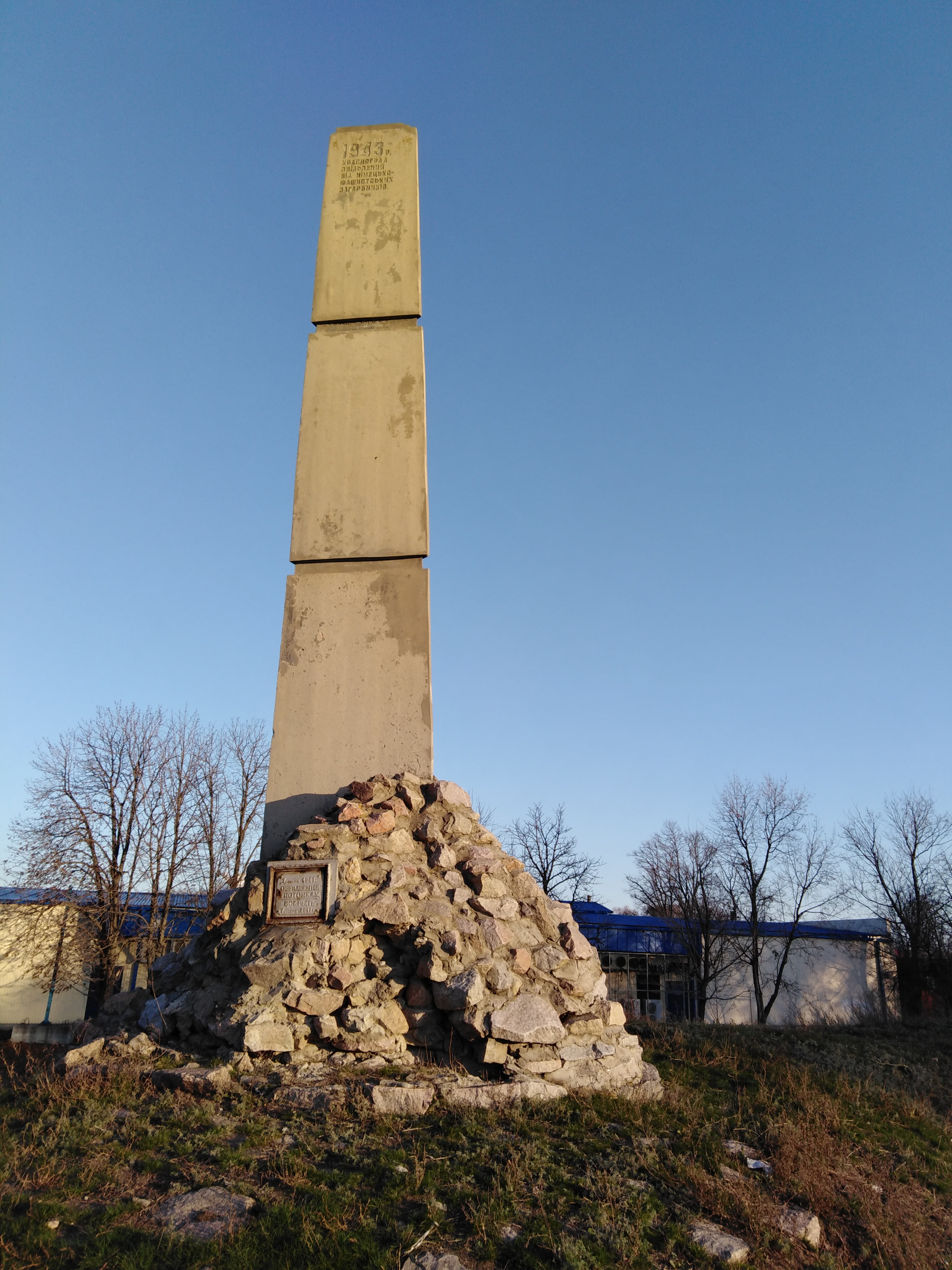 Ukraine, Kharkiv region, Krasnograd district, Krasnograd-city. Bilevska fortress. The fortress was built in 1731 as part of the Ukrainian defense line of the Russian Empire.